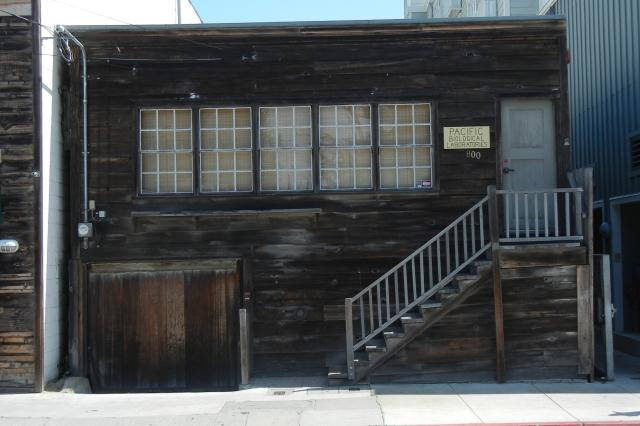 The Pacific Biological Lab of Ed Ricketts on Cannery Row in Monterey, California.